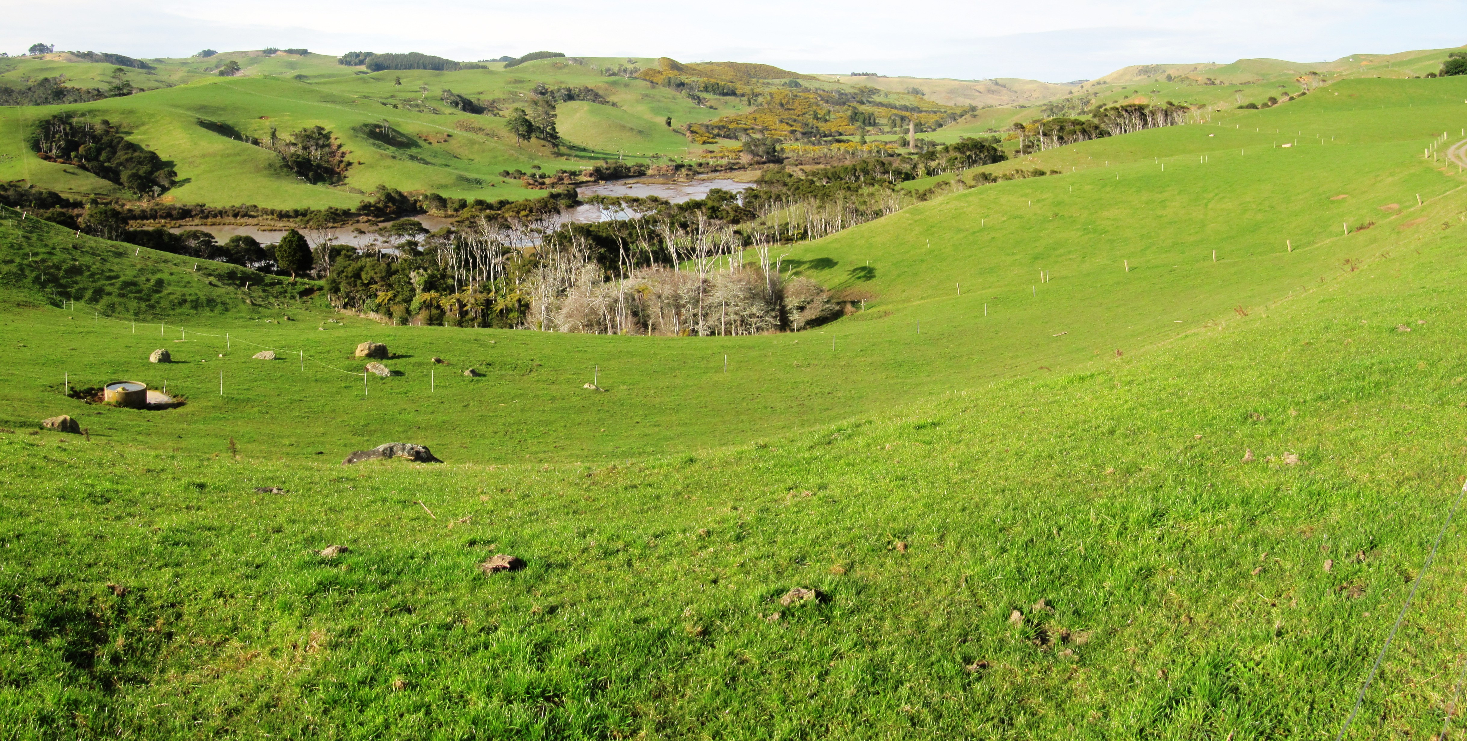 the upper part of the tidal creek and the salt marshes